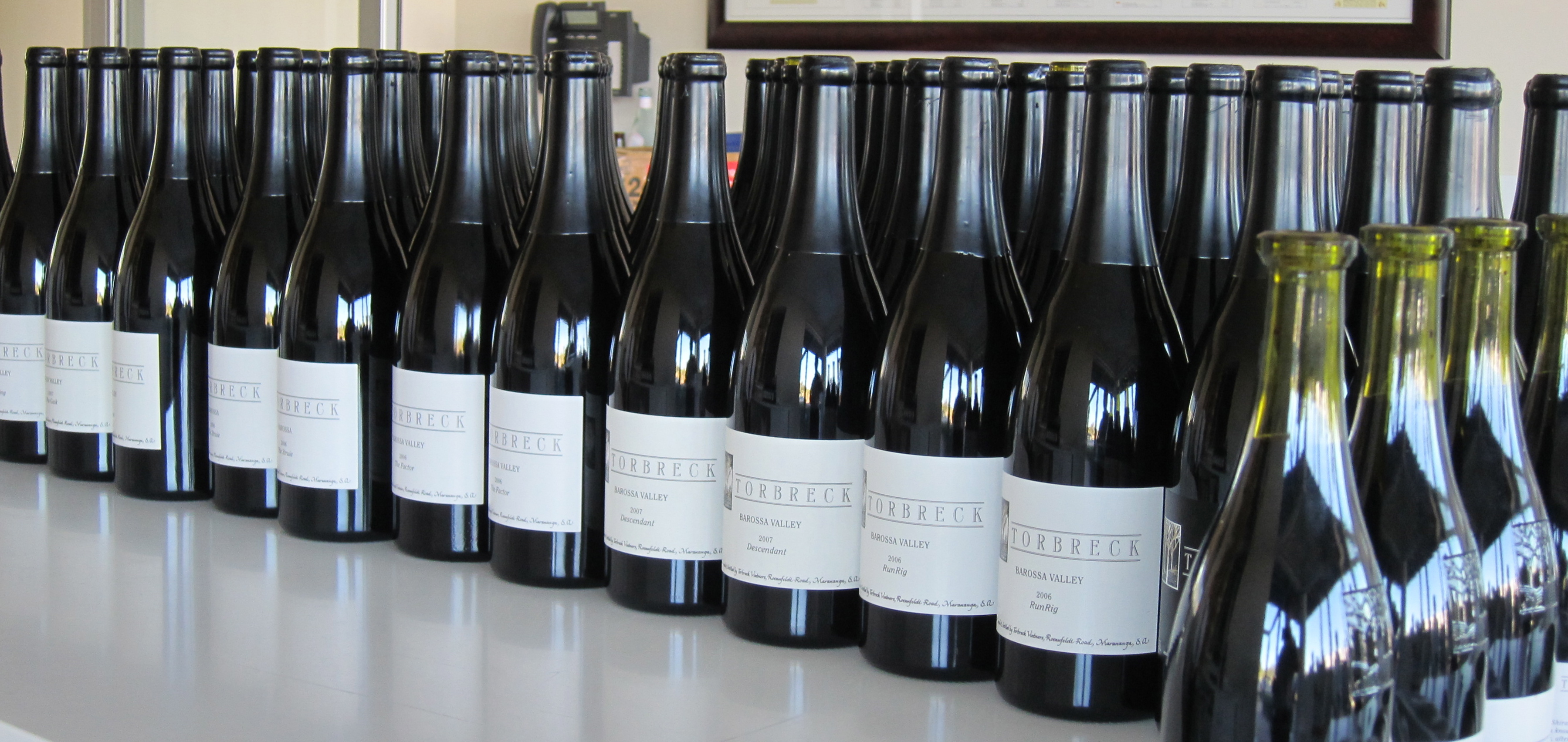 It is a photo showing various bottles produced by Torbreck.